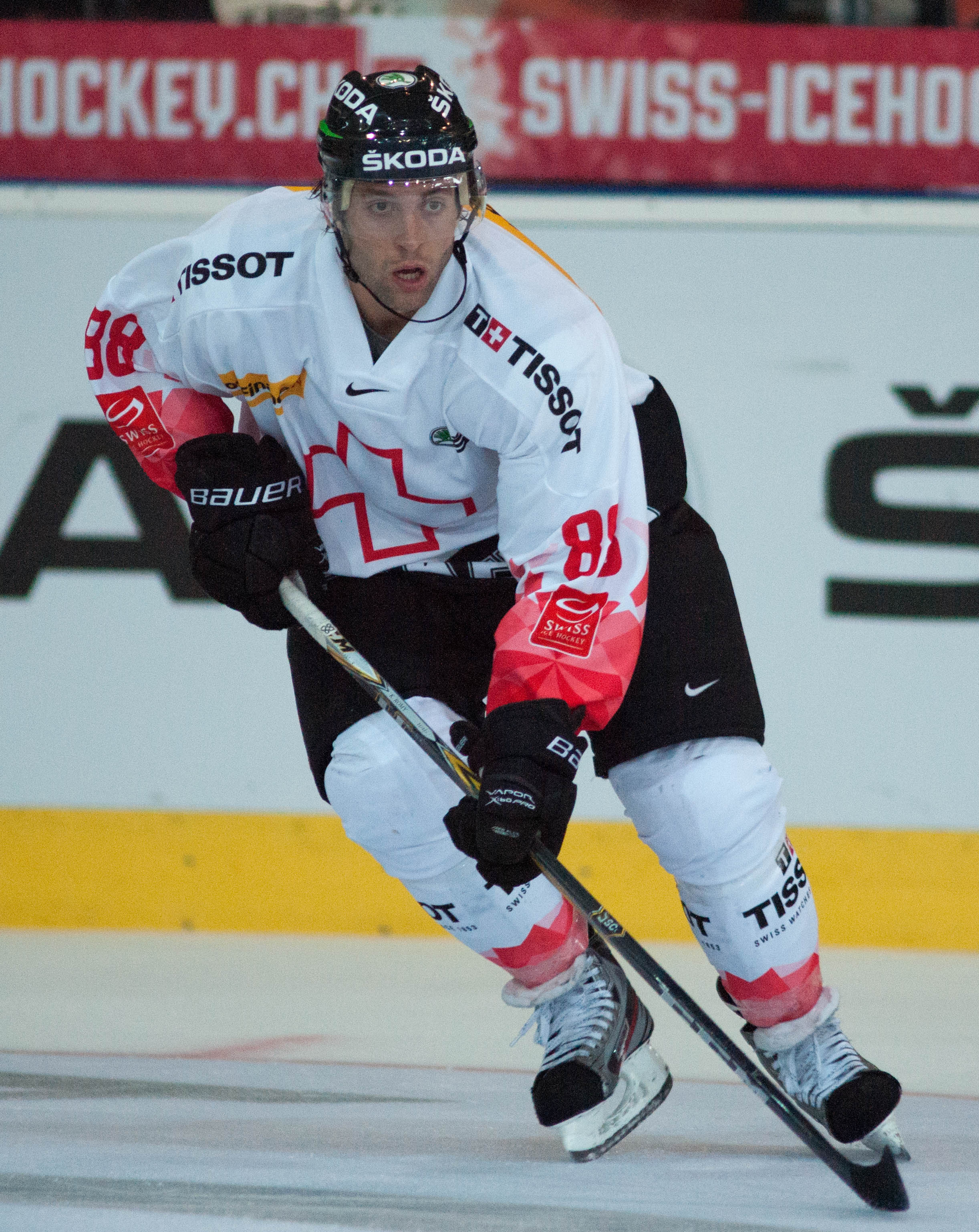 Switzerland vs. Canada, 29th April 2012